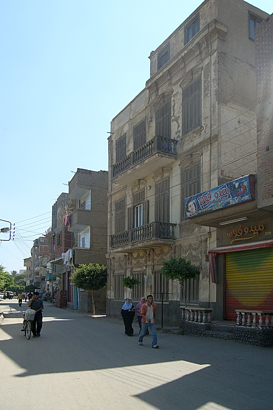 Residential building in Samannud, Egypt